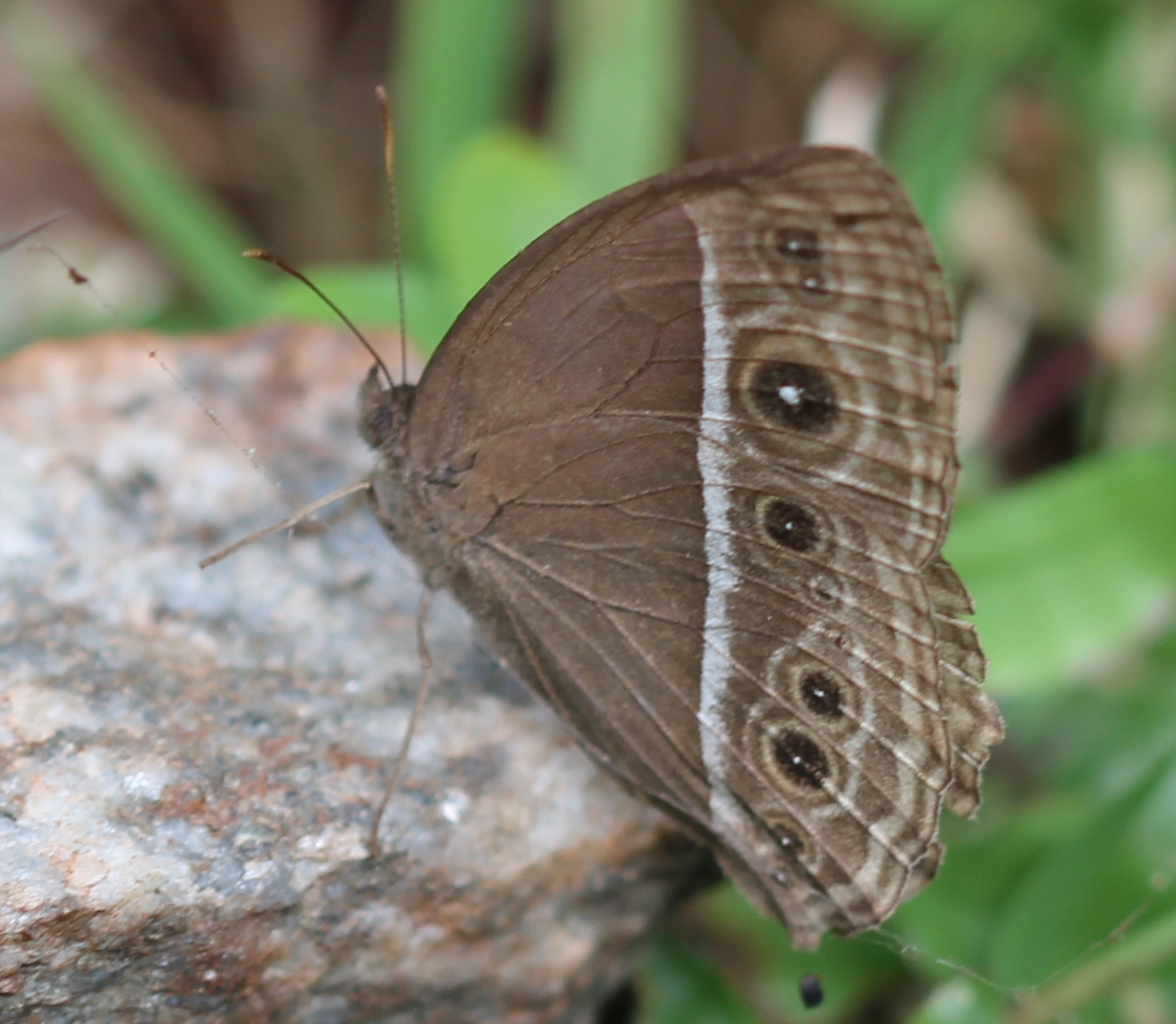 closed view of long brand bushbrown